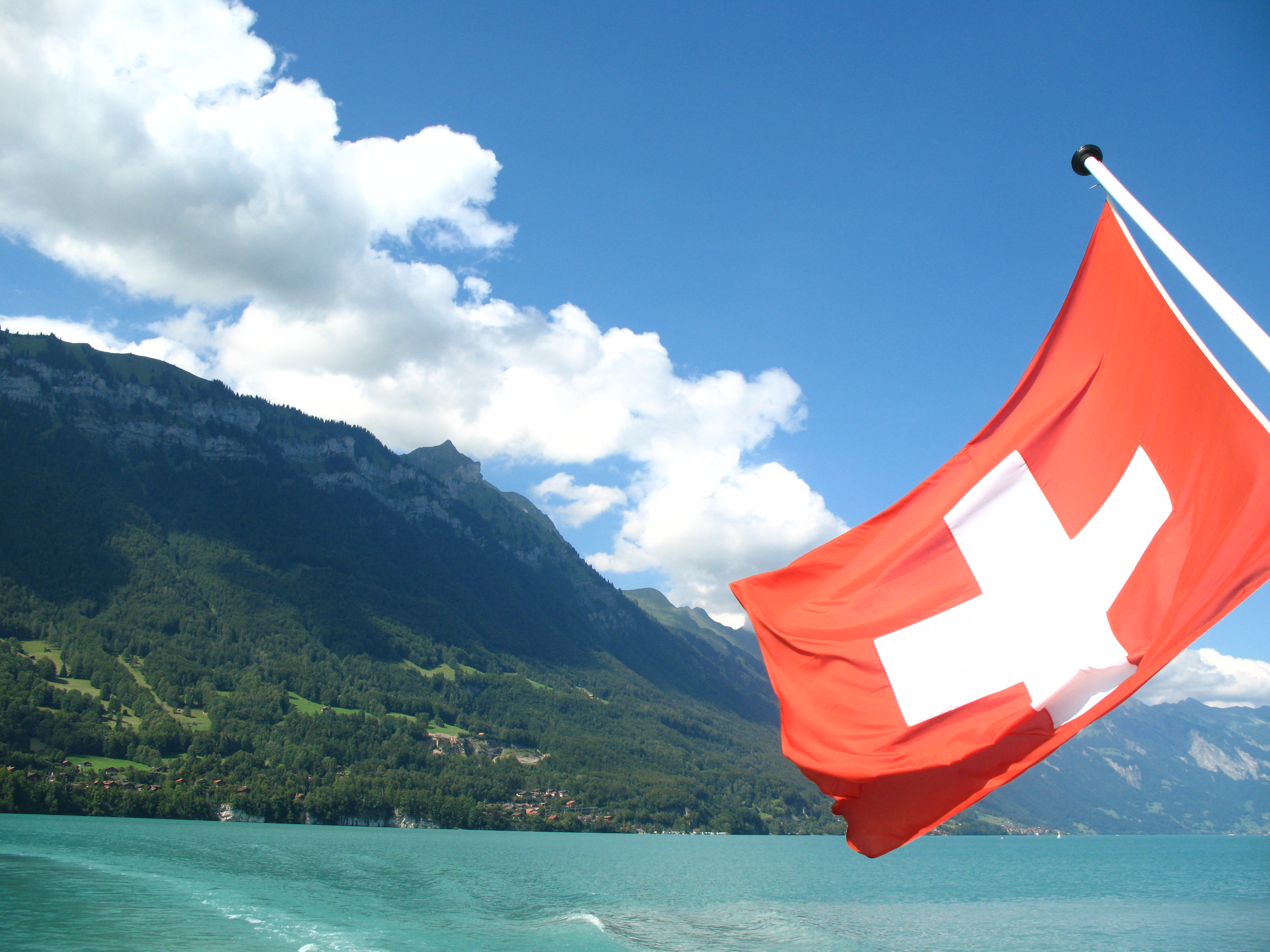 Niederried on Lake Brienz, Bönigen, Switzerland